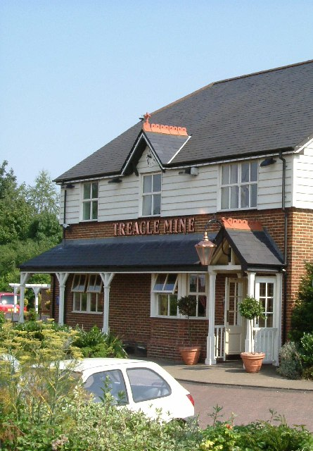 The Treacle Mine Public House, near North Stifford, Thurrock, Essex, England. Location: 51:29.7072N 0:19.0736E